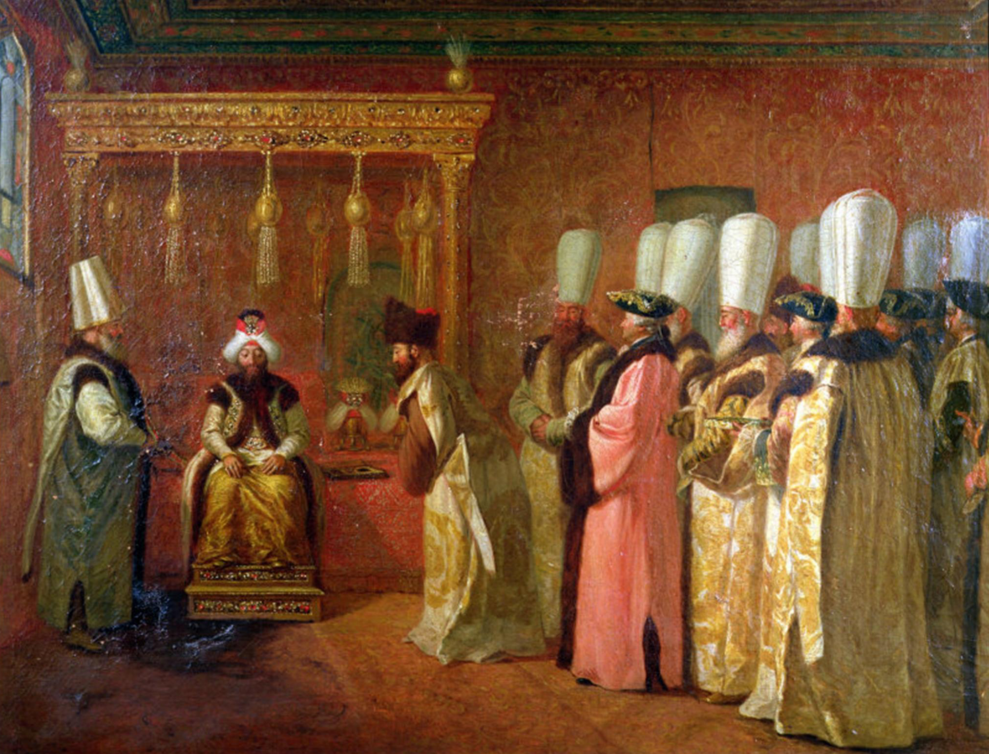 Audience-of-Charles-Gravier-Comte-de-Vergennes-with-The-Sultan-Osman-III-in-Constantinople-1755